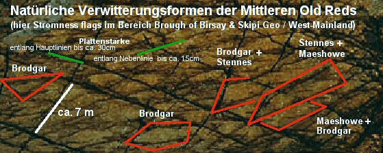 Natural forms of rock erosion of Middle Old Red Sandstones along the coast of West-Mainland, Orkney (between Birsay and Skipi Geo). Outlined are those particular forms used for the major neolithic monuments of Orkney.